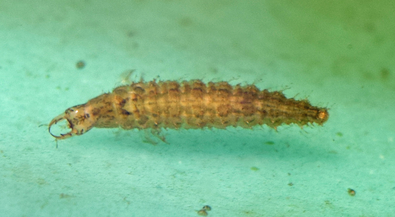 A Tropisternus lateralis larva at the University of Mississippi Field Station.